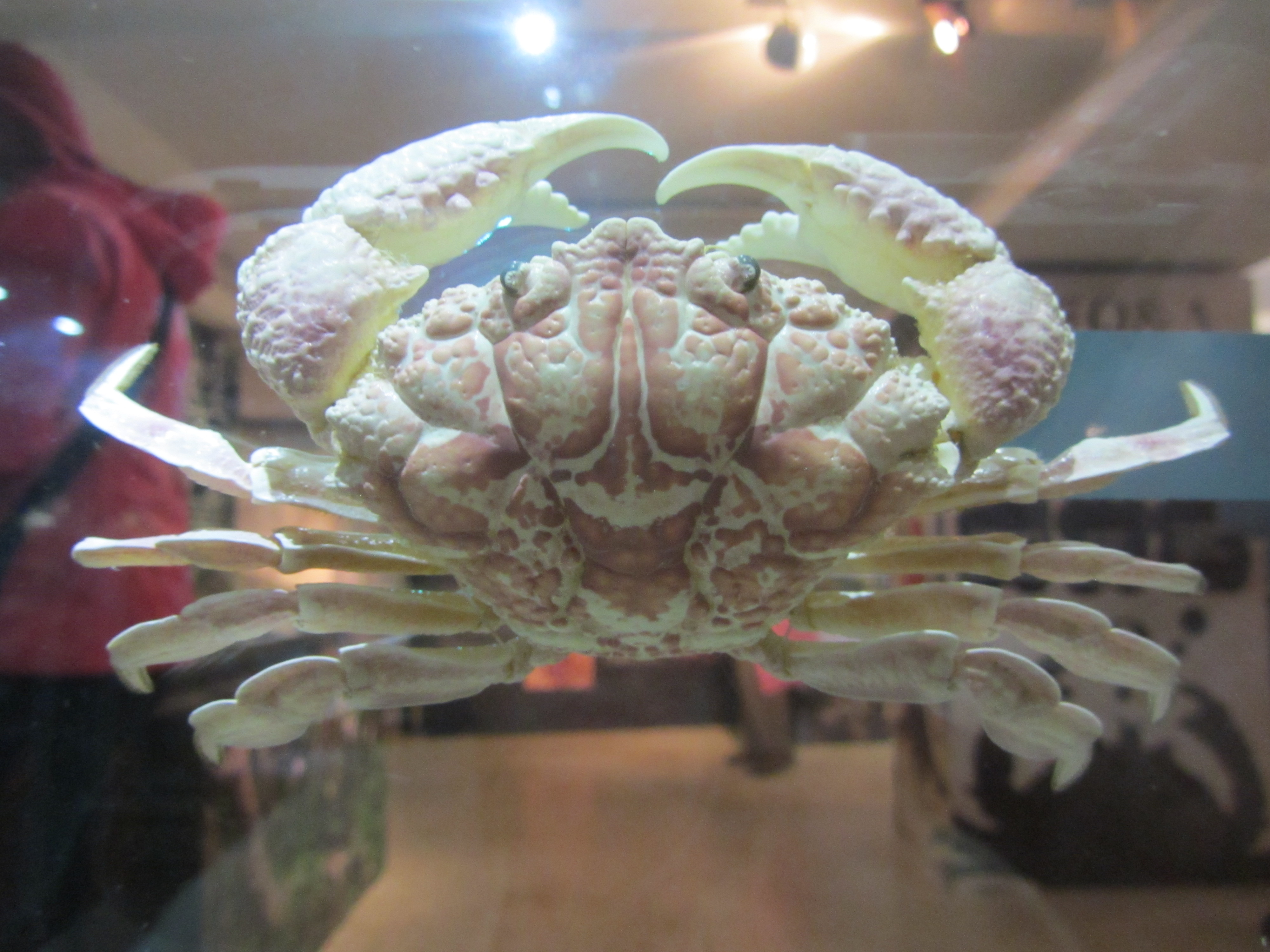 Specimen of Demania cultripes